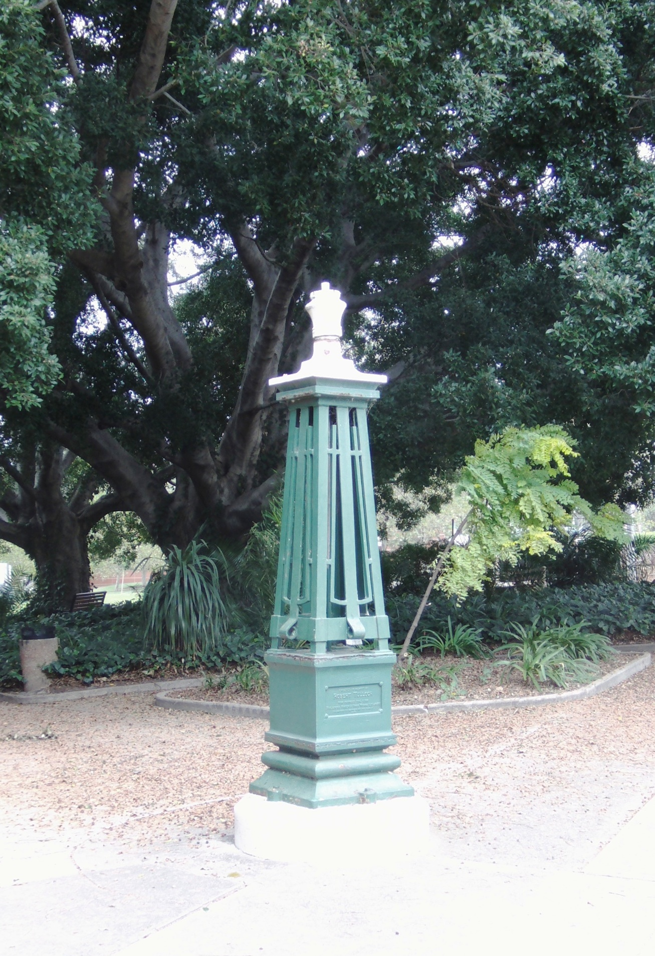 Memorial to Robert Tulloch who founded the firm Tullochs Phoenix Iron Works Ltd 1885, presented by members of his family 1945, in park opposite Rhodes Railway Station, corner of Mary Street and Blaxland Road, Rhodes